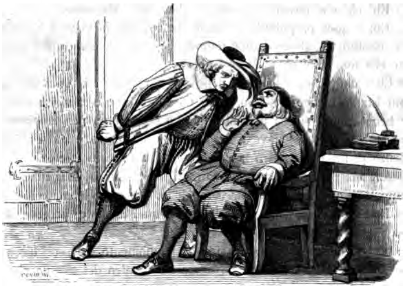 The most famous Italian historical romance,and the masterpiece of Alessandro Manzoni.